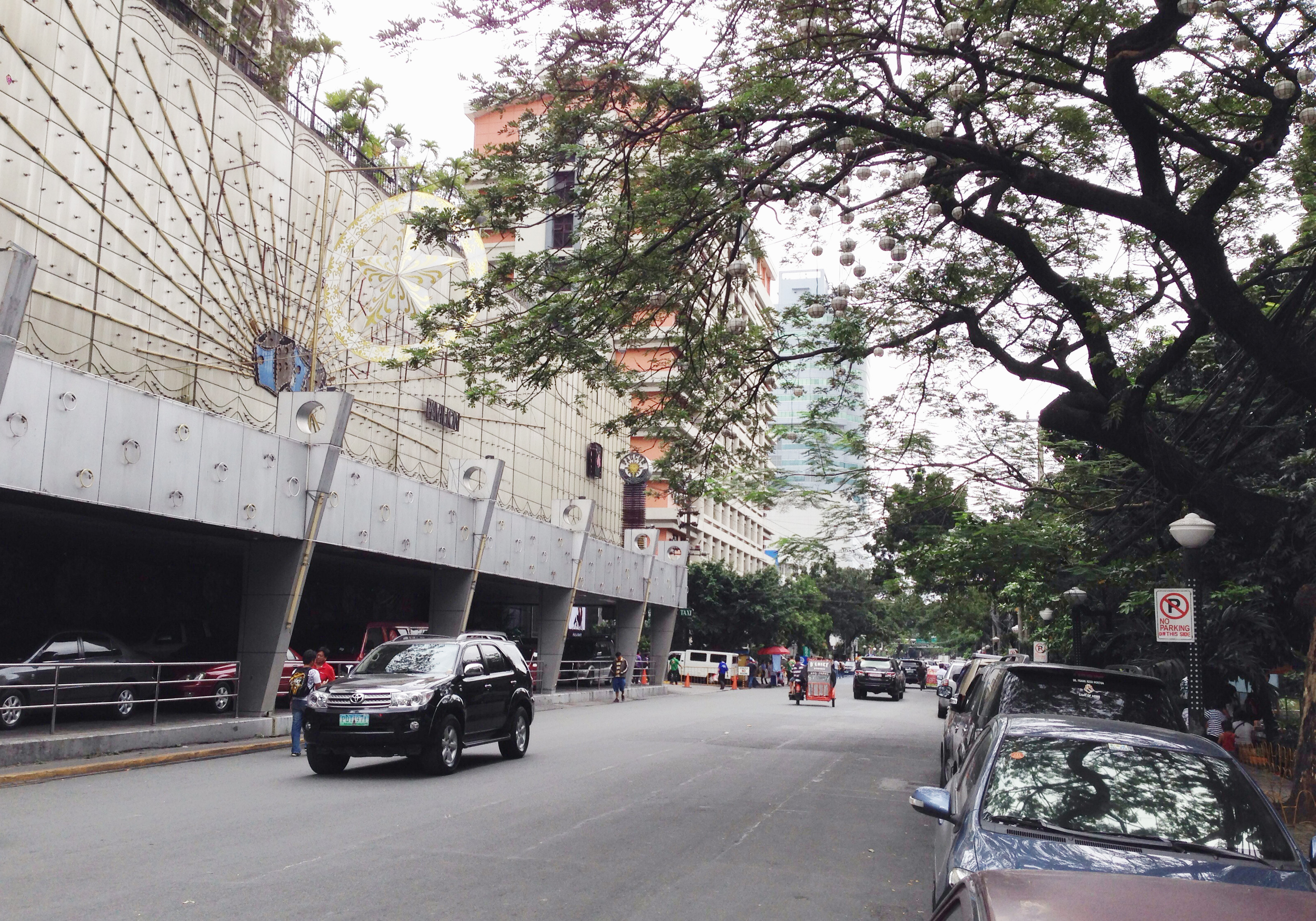 United Nations Avenue, Ermita, Manila, Philippines